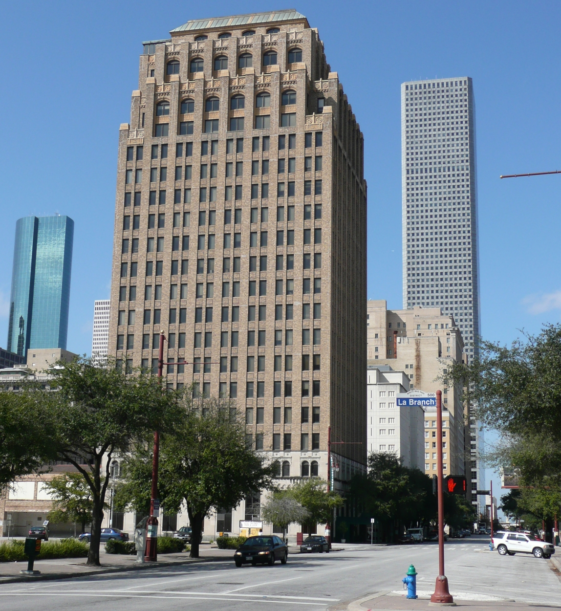 great southwest bldg and chase tower